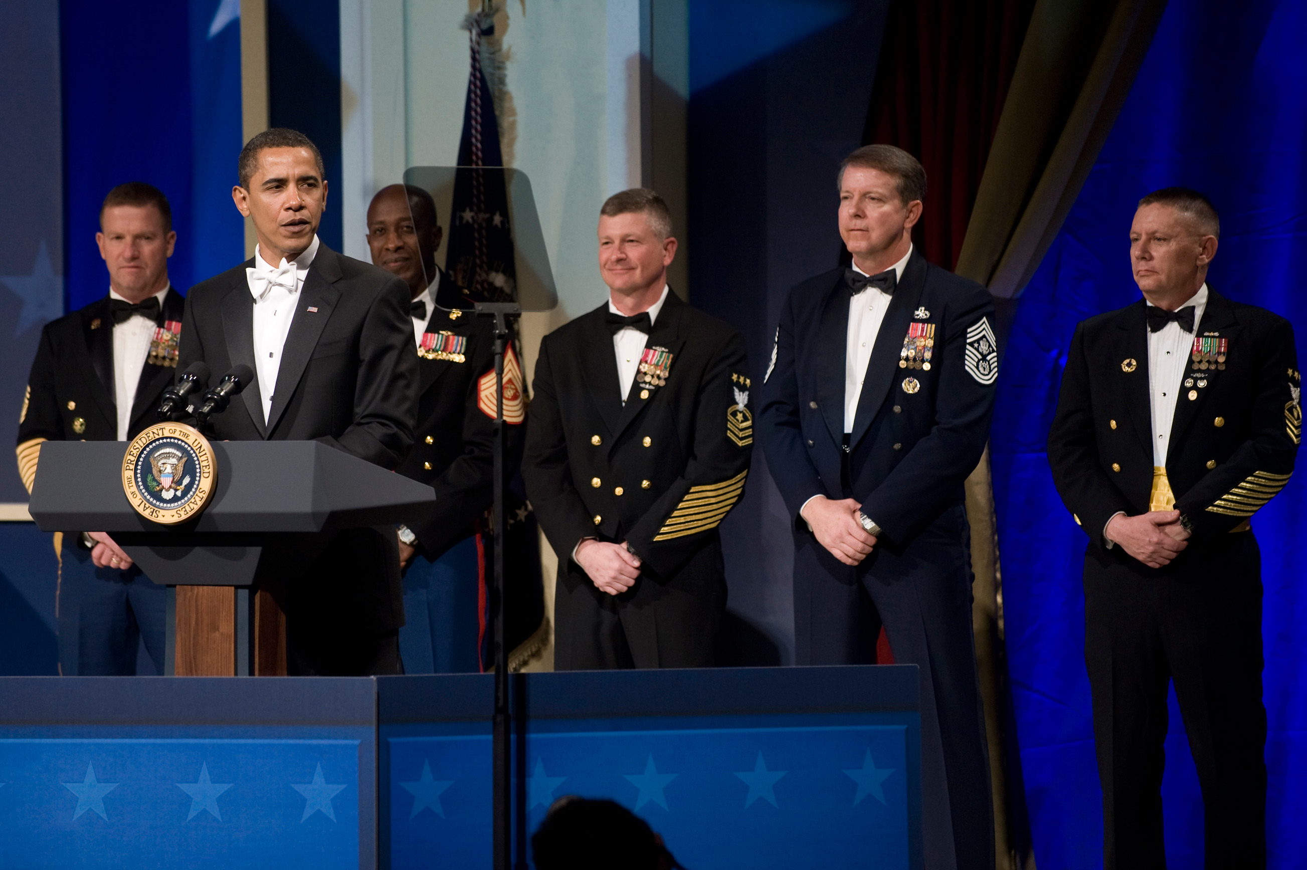 Surrounded by each service's senior enlisted advisor, President Barack Obama addresses the audience at the Commander in Chief's Ball at the National Building Museum, Washington, D.C., Jan. 20, 2009. The ball honored America's servicemembers, families, the fallen and wounded warriors.